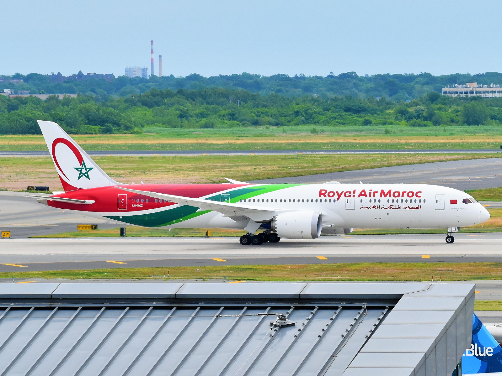 A Royal Air Maroc Boeing 787-9 Dreamliner is rolling for takeoff at John F. Kennedy International Airport, bound for Casablanca...